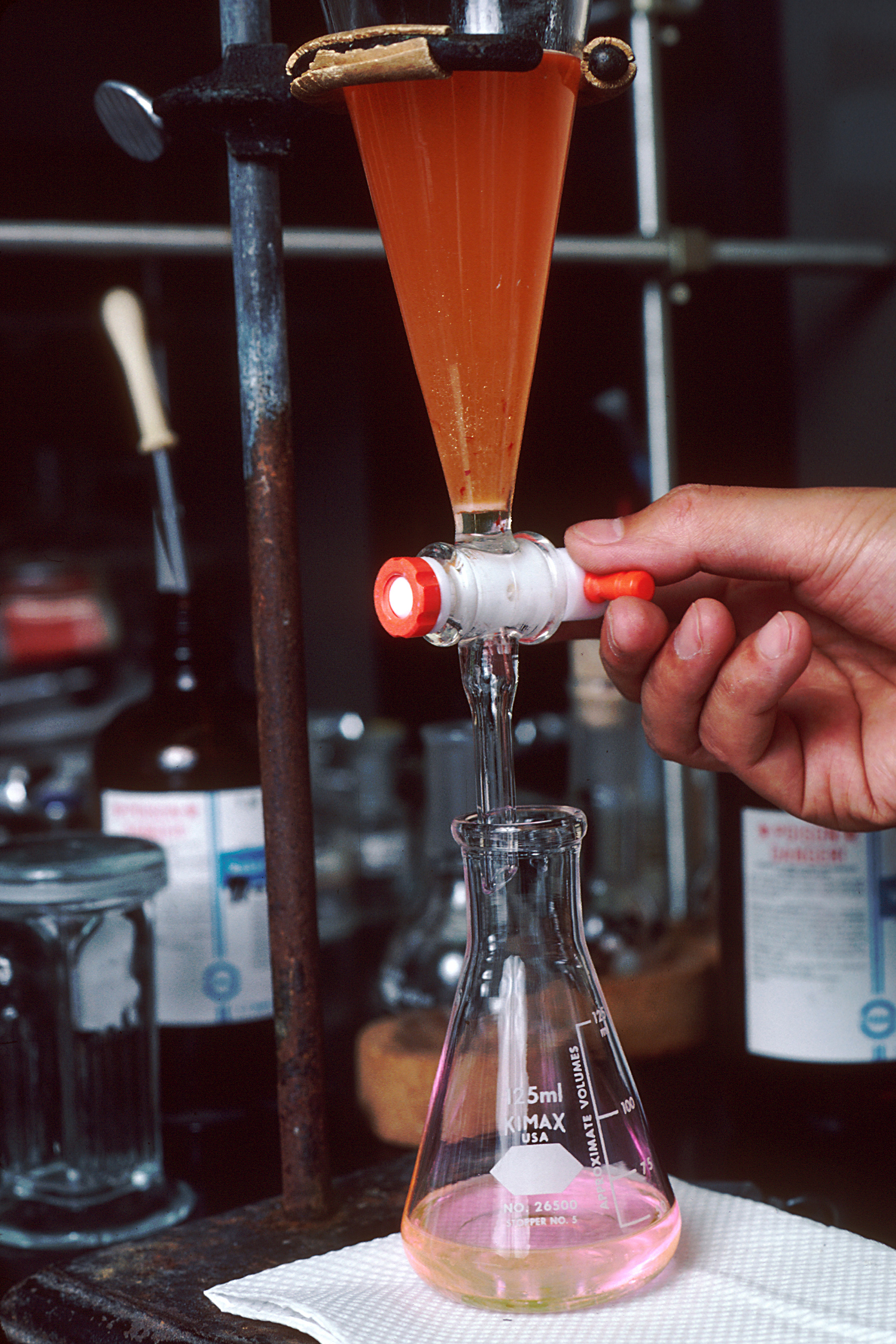 Title Drug Synthesis Description Seen is a close-up of a technician's hand adjusting the amount of chemicals flowing into a beaker in the process of drug synthesis. Topics/Categories Science and Technology -- Laboratory Techniques/Equipment Type Color, Photo Source National Cancer Institute